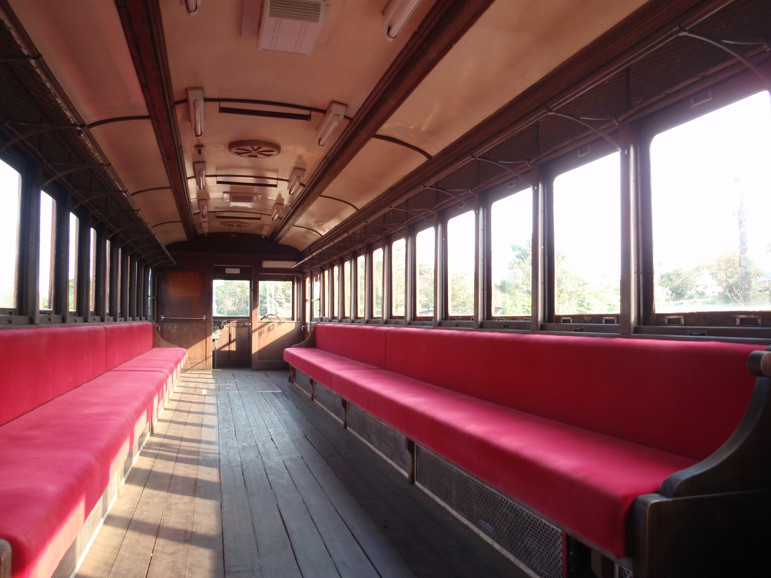 Inside of EMU Type Dehani-50 No.52 by Ichibata Electric Railway(BATADEN).